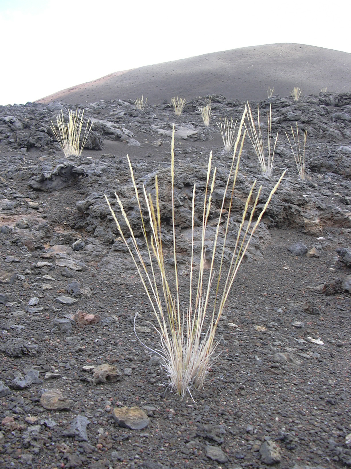 Agrostis sandwicensis (habit). Location: Maui, Puu Nole Haleakala National Park